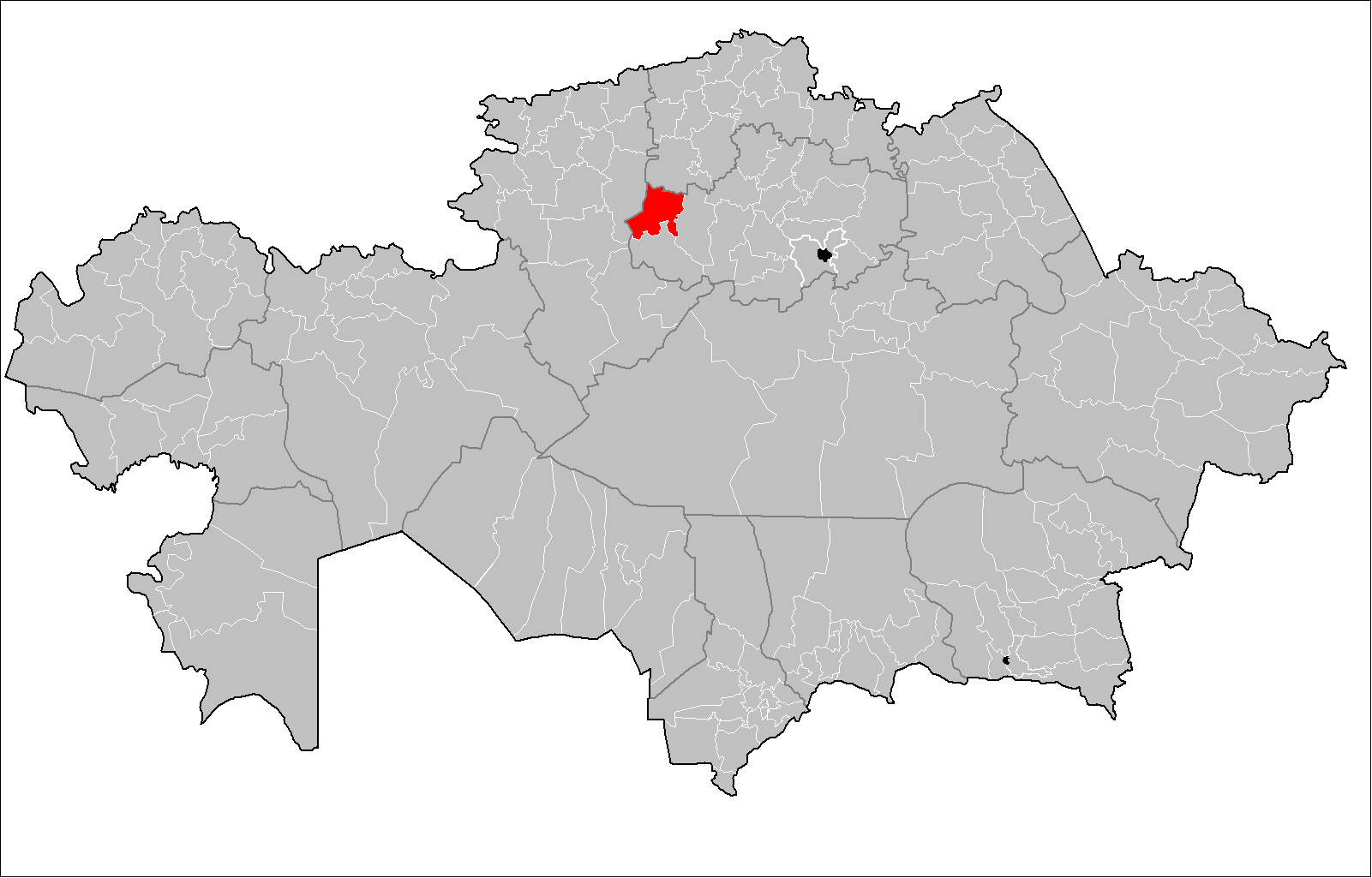 Map of the rayons of Kazakhstan. Created by Rarelibra 16:49, 3 August 2007 (UTC) for public domain use, using MapInfo Professional v8.5 and various mapping resources.